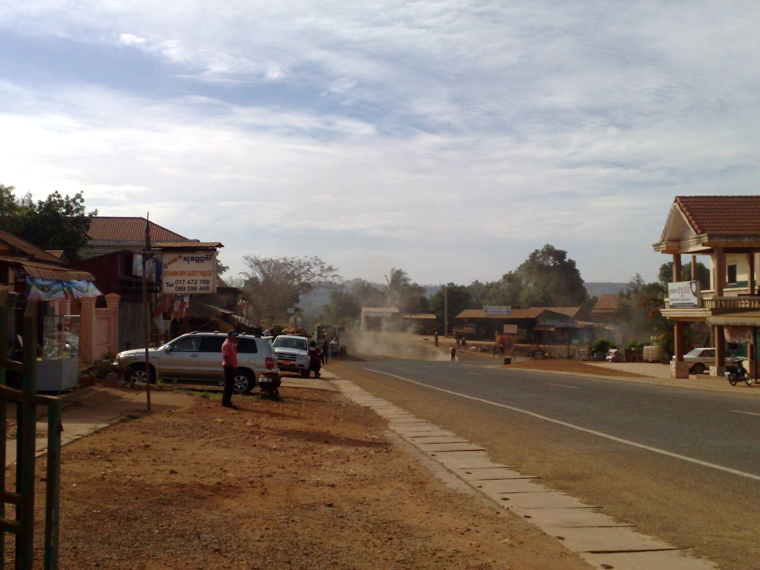 The main road in the town of Sen Monorom in Mondulkiri province of Cambodia's east. Picture taken during a dusty day at 16 March 2011.